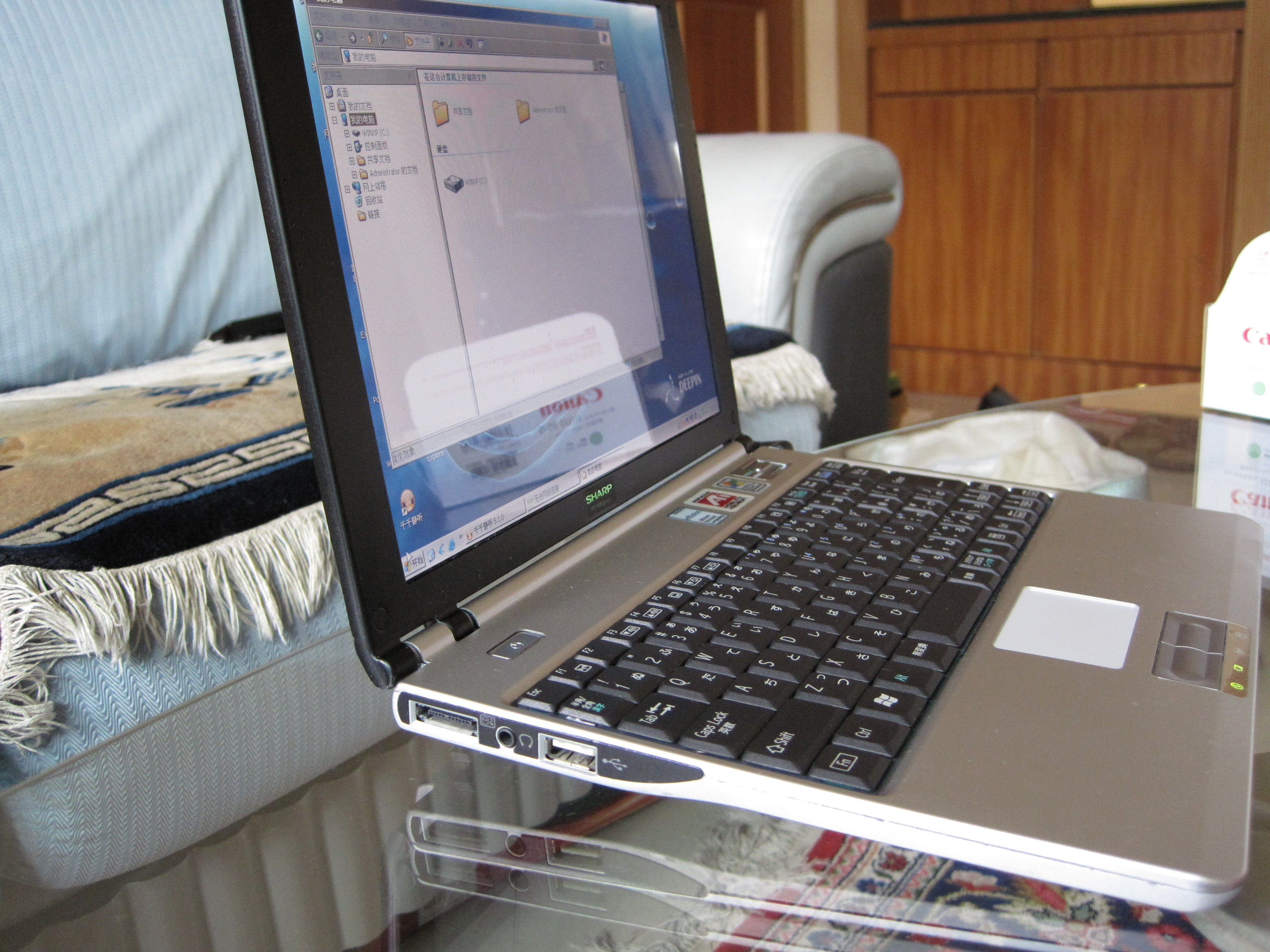 Sharp PC-MM2, one of the notebook computer model equipped with Transmeta Efficeon CPU